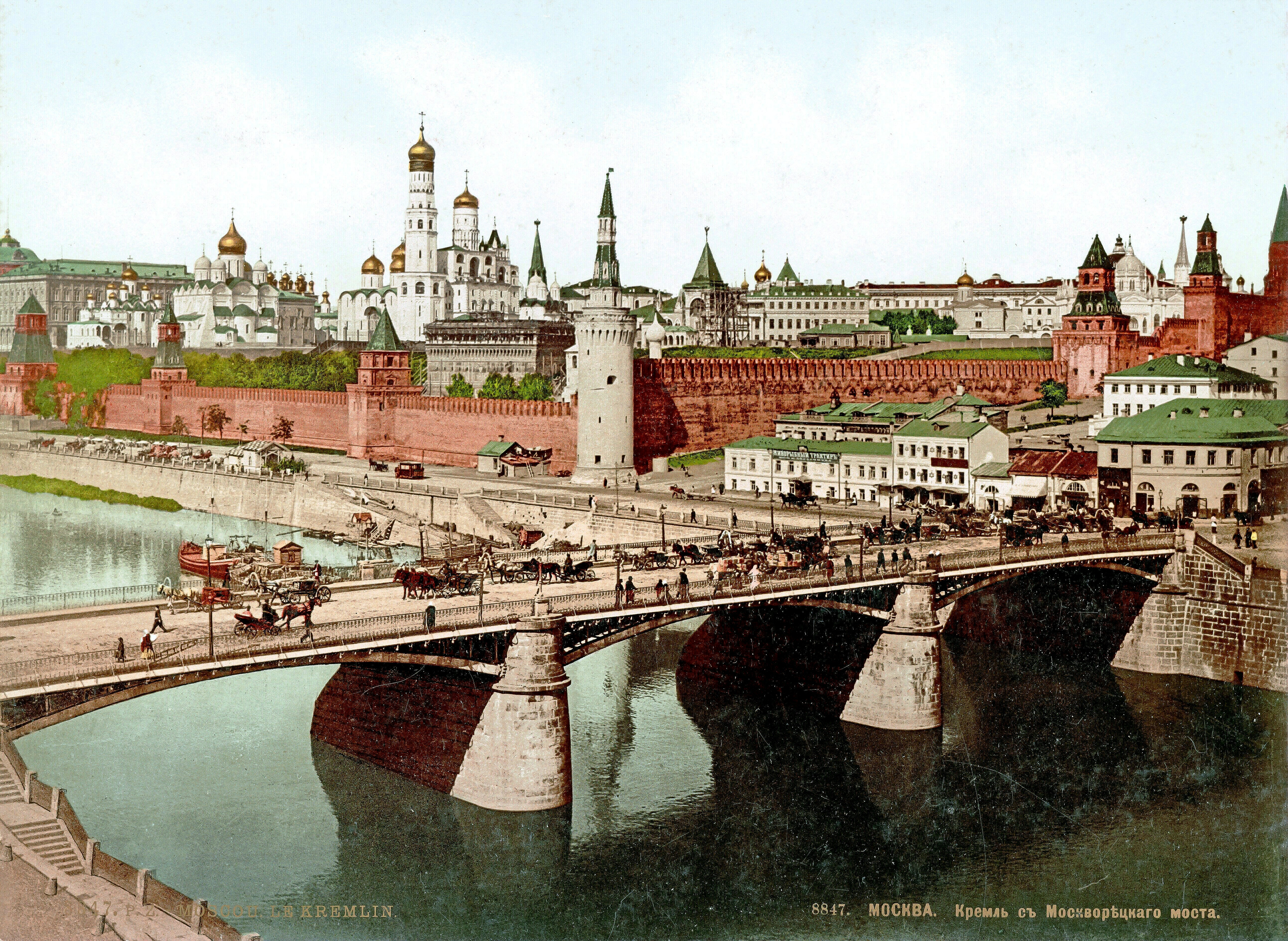 Title: Moscou. Le Kremlin Physical description: 1 print